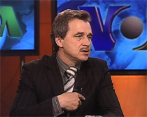 Anatoly Lebedko.